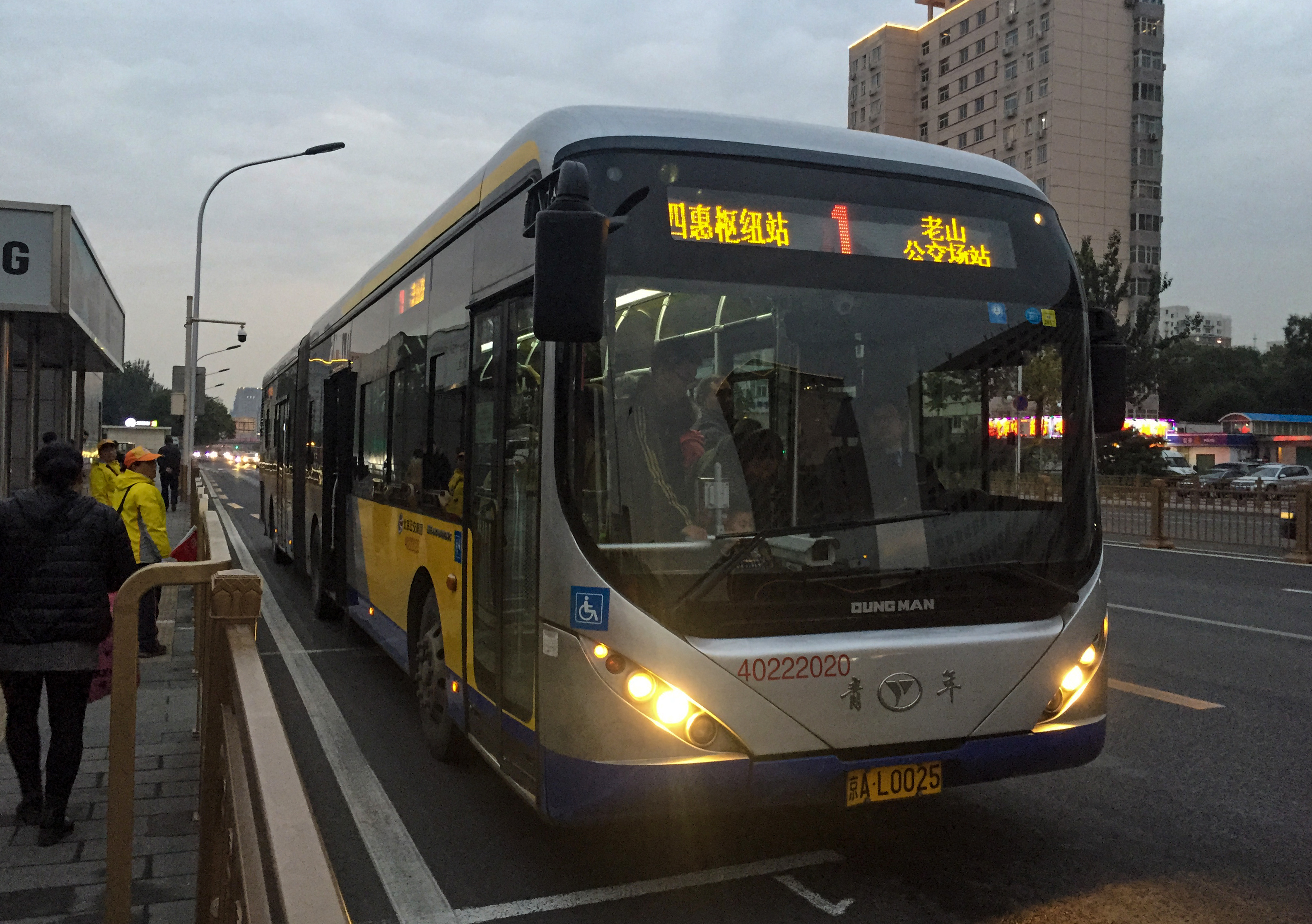 Catfish from 52R... Will they go to 320?